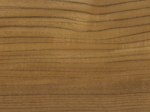 Teak - veneer